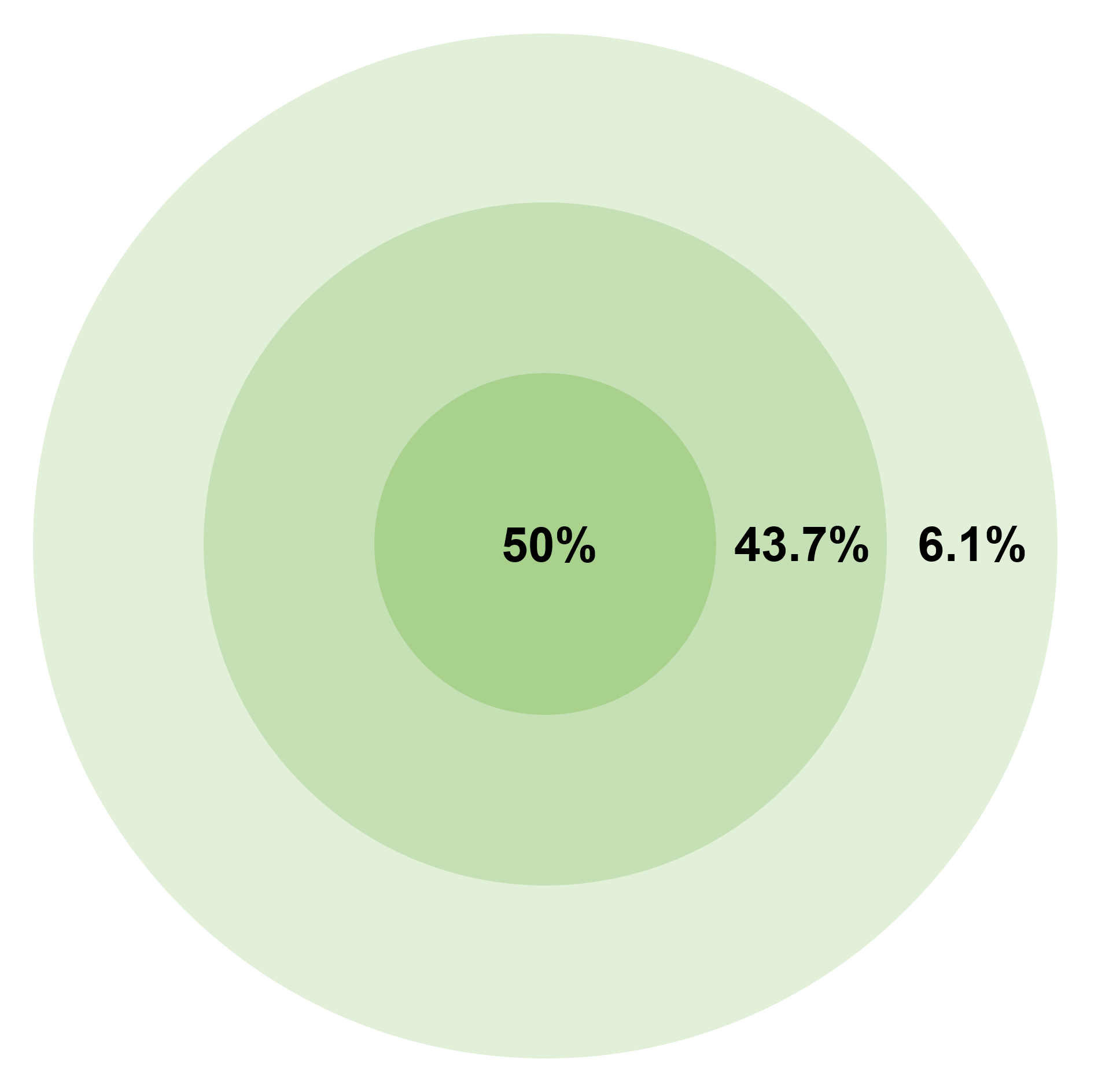 Circular error probable. 0.2% Located outside the circle.